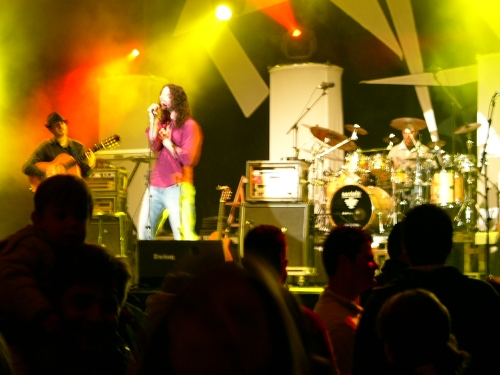 Spanish flamenco-fusion band La Hora del Gato live in Teulada